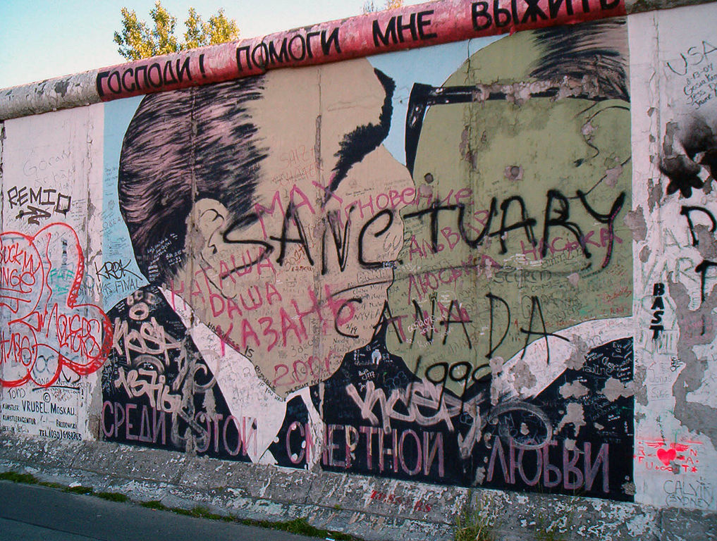 Self Shot in Berlin Germany in 2005 This part of the wall is located at East Side Gallery Graffiti "Господи! Помоги мне выжить среди этой смертной любви" ("God! Help me survive amid this mortal love") by Dmitry Vrubel, 1989 Category:Berlin Wall